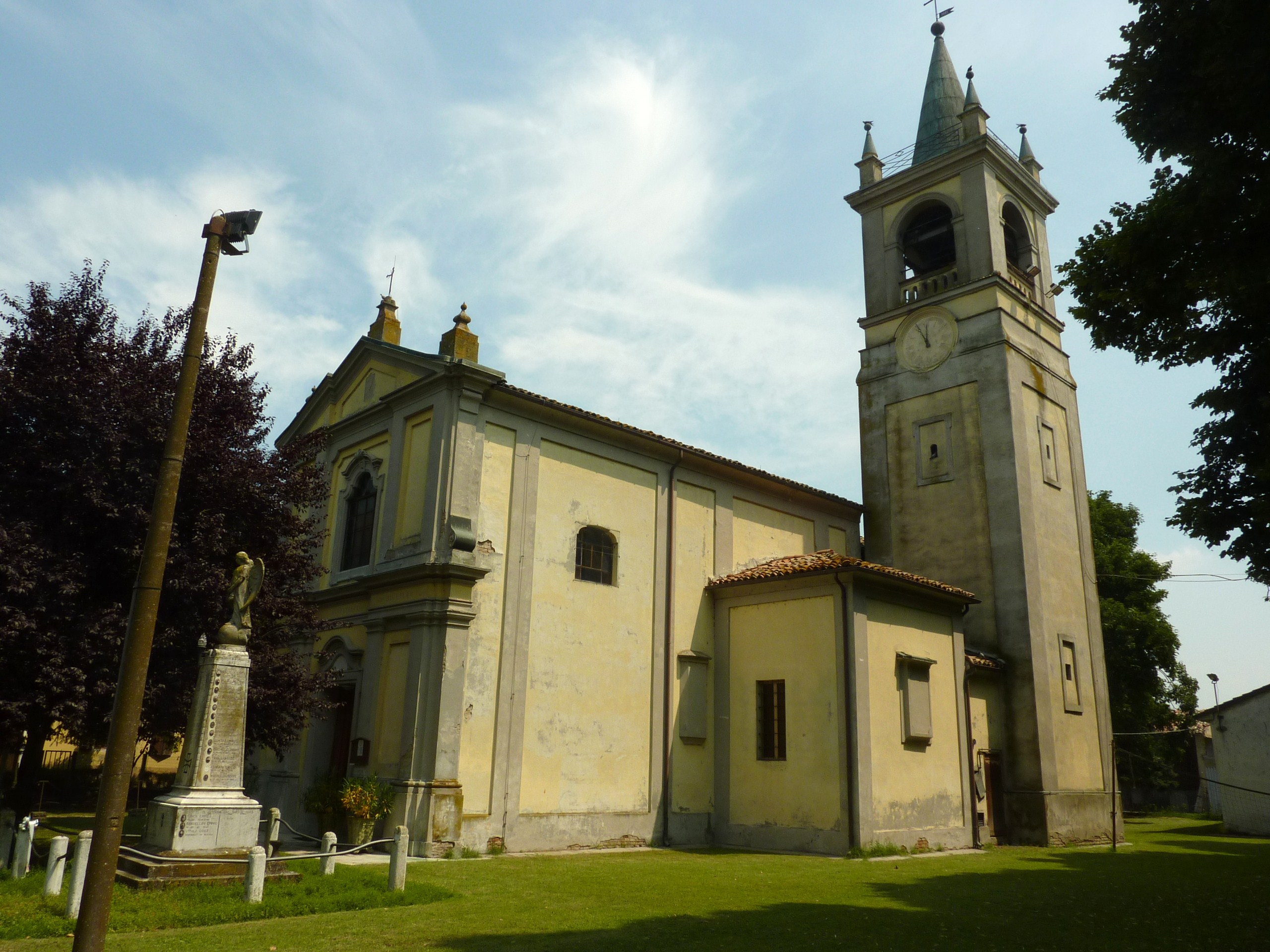 The church of Mezzano Rondani (Parma, Italy).